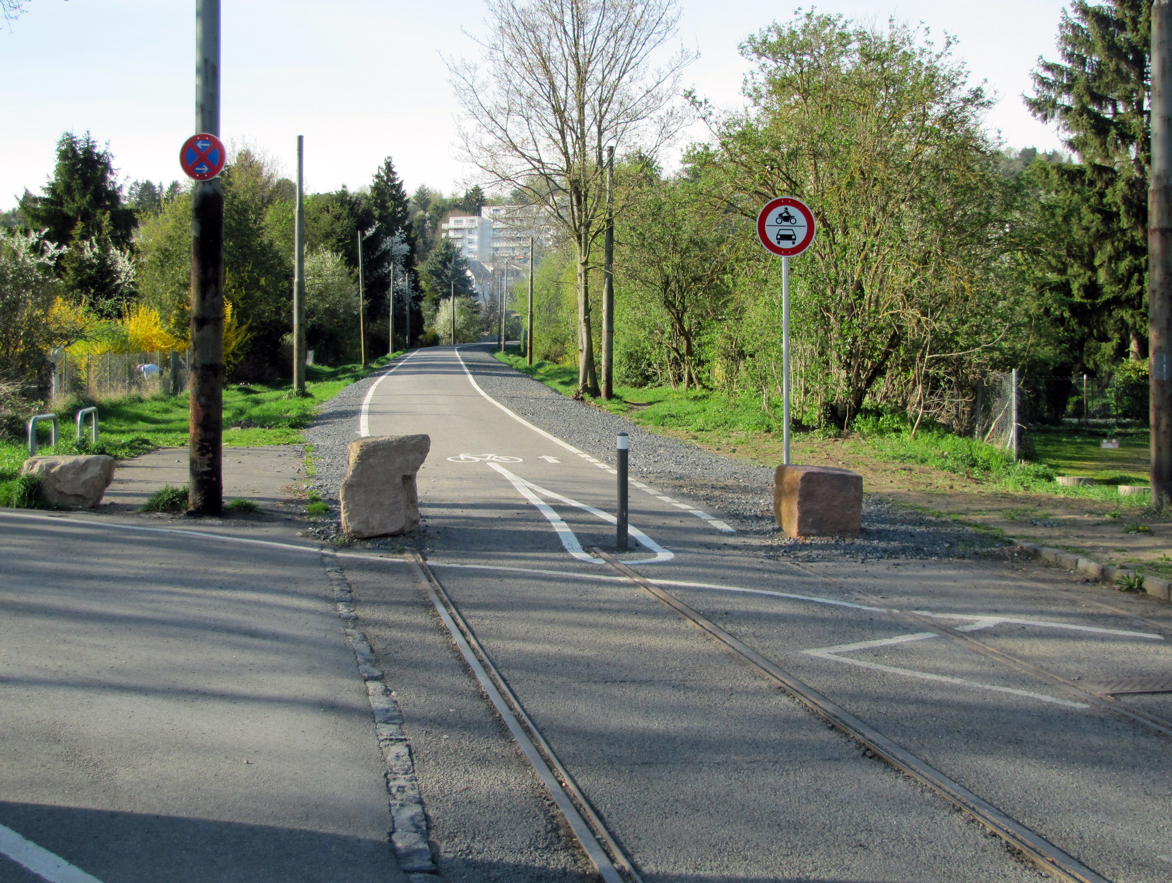 Begin of abandoned tram track in Frankfurt_Seckbach, Gwinnerstrasse, to Frankfurt-Bergen, conversion as bike lane and footpath.